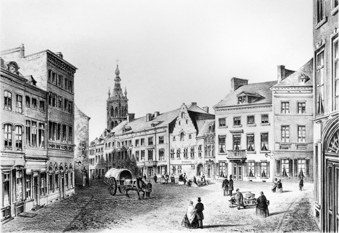 Lithograph of the Hennemarkt in Tienen (Belgium)